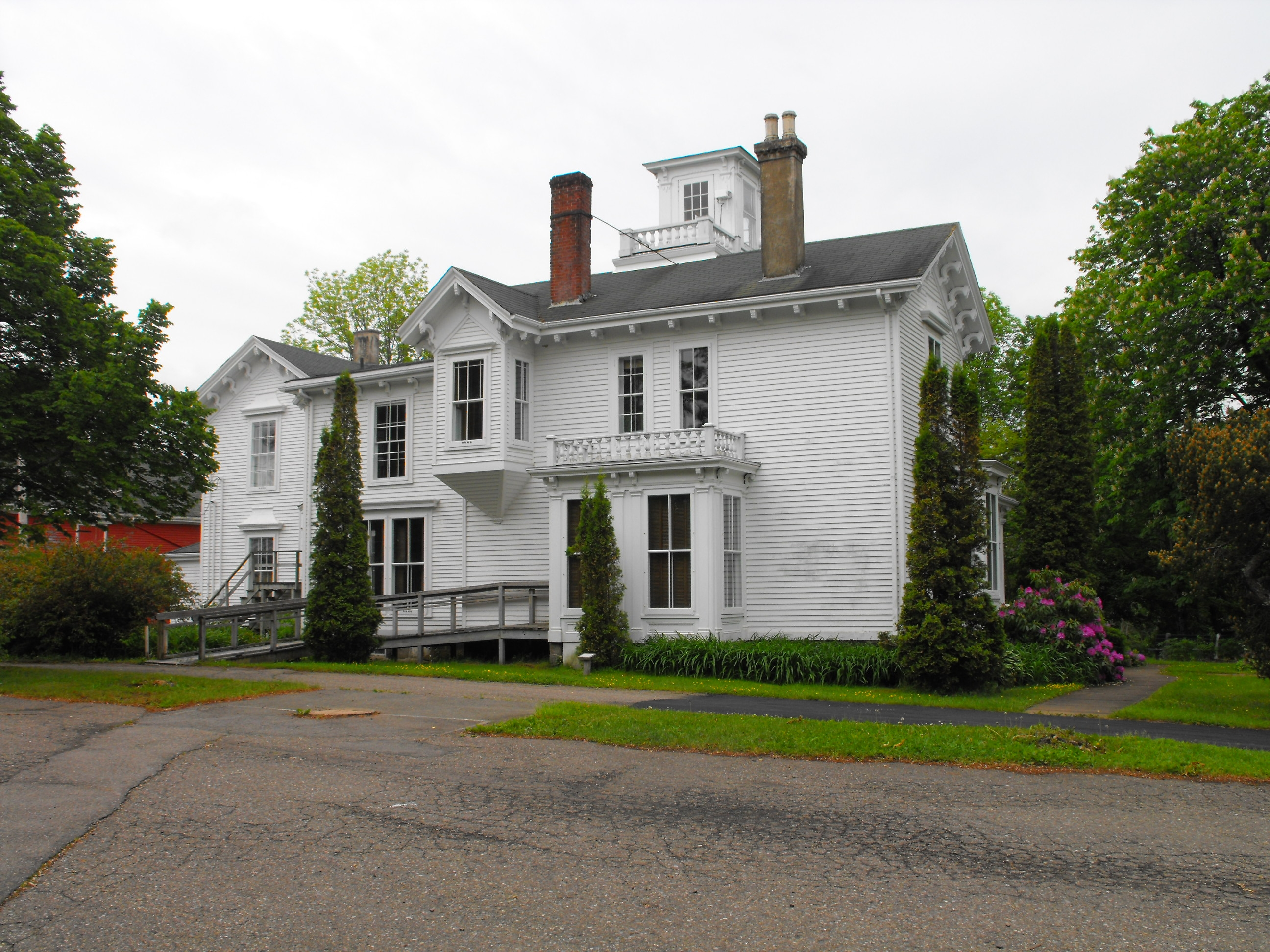 Exterior, Churchill House, Hantsport, Nova Scotia